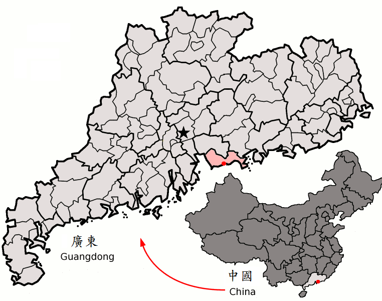 Location of Shenzhen within Guangdong (China) - traditional